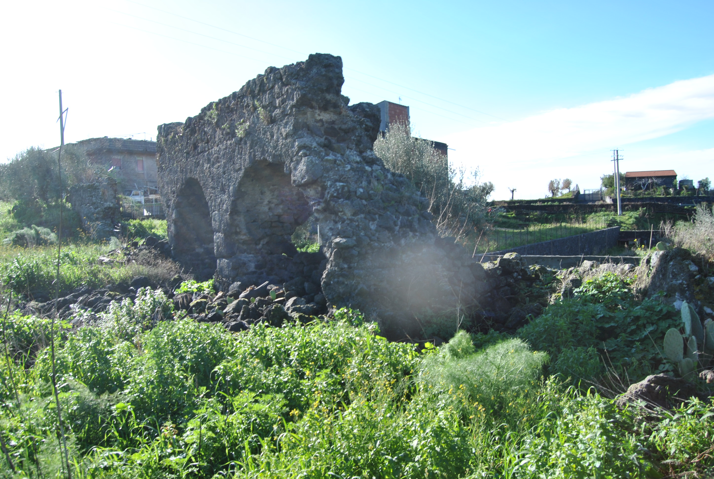 Tratto di Paternò